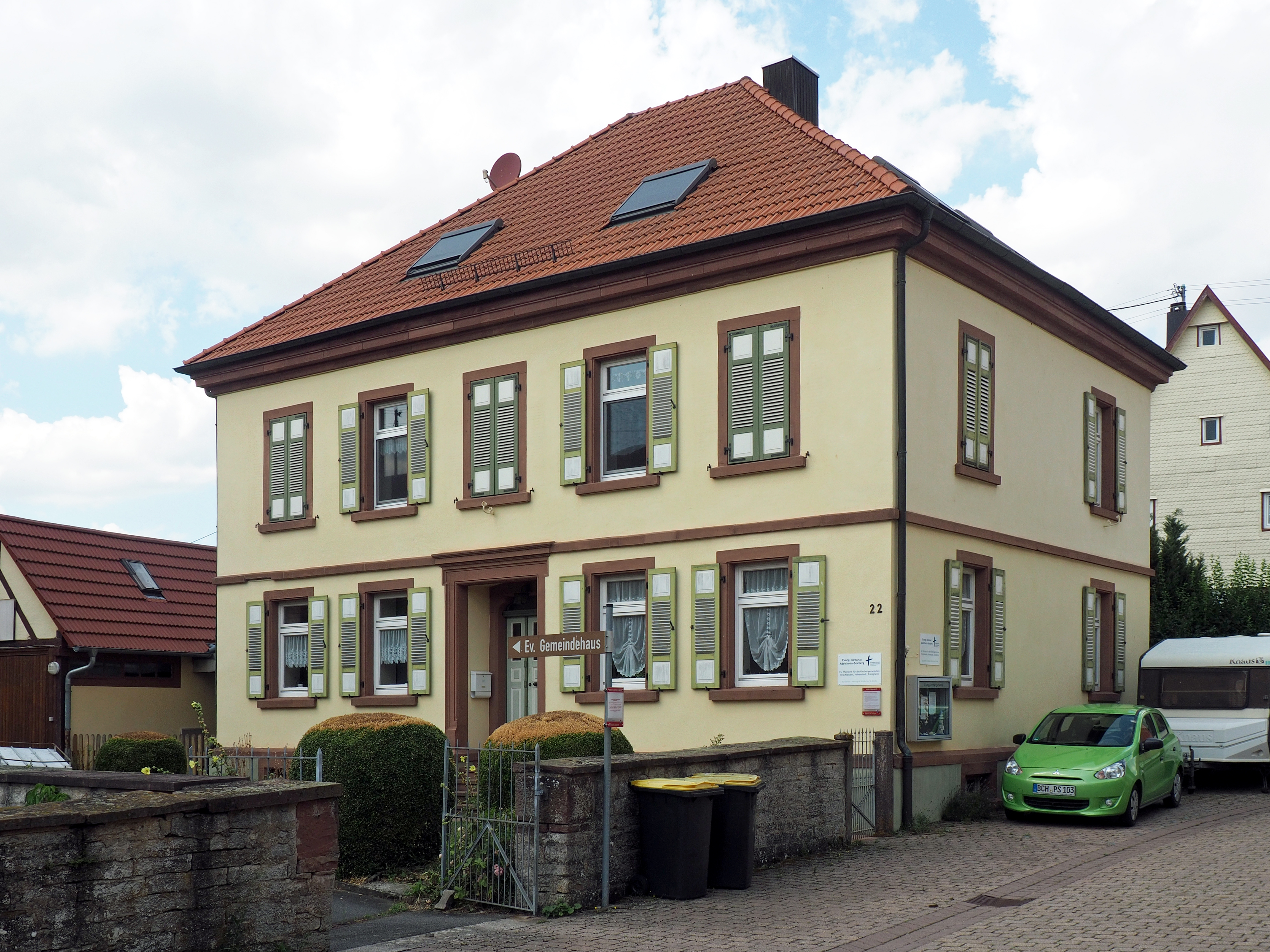 Evangelical Deanery in Hirschlanden.